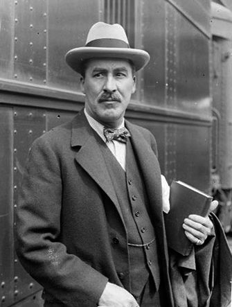 Informal portrait of Howard Carter (the archaeologist) standing with a book in his hand next to a train at a station in Chicago, Illinois.